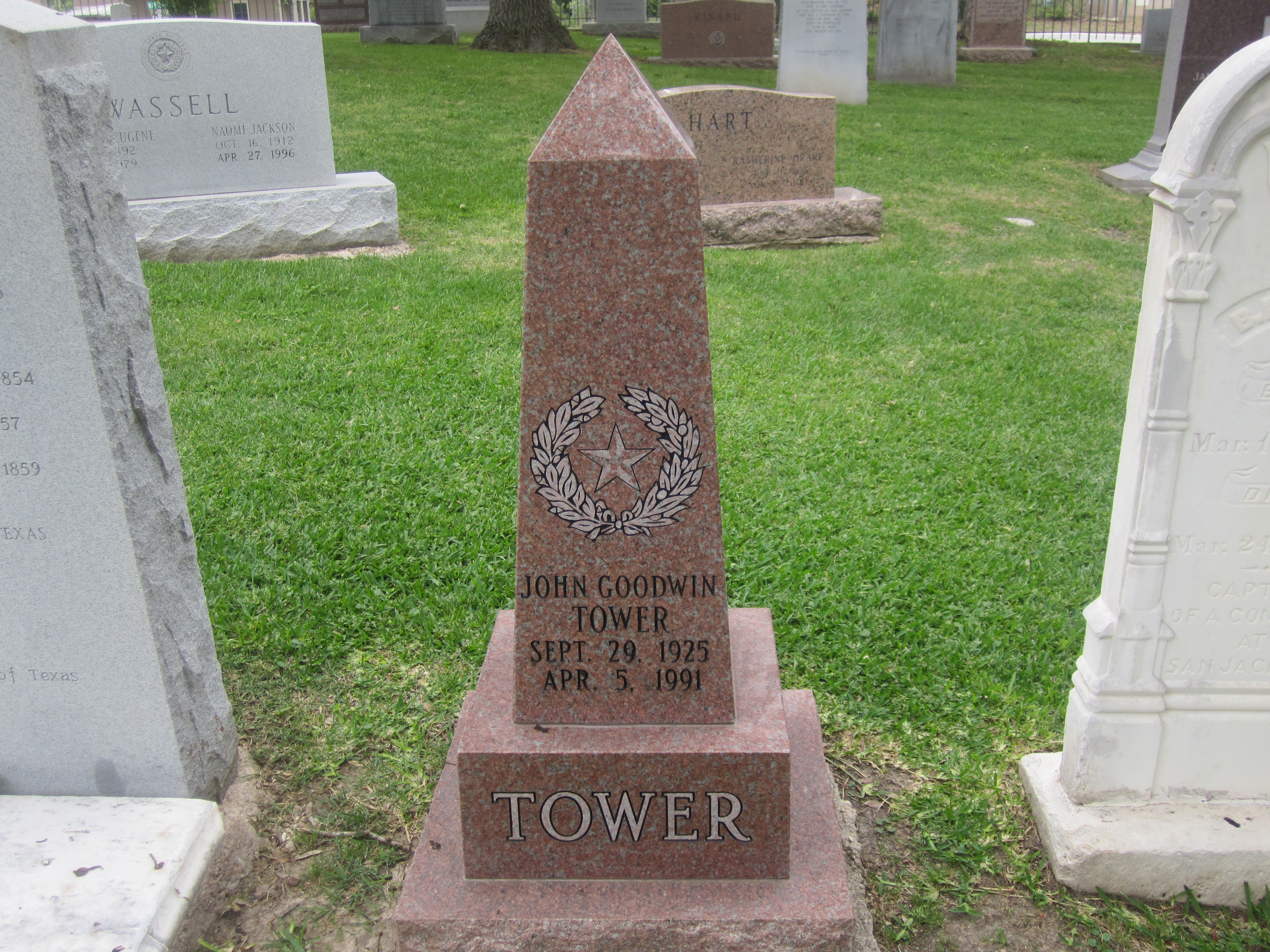 I took photo of John Tower centograph at TX State Cemetery in Austin, TX, with Canon camera.